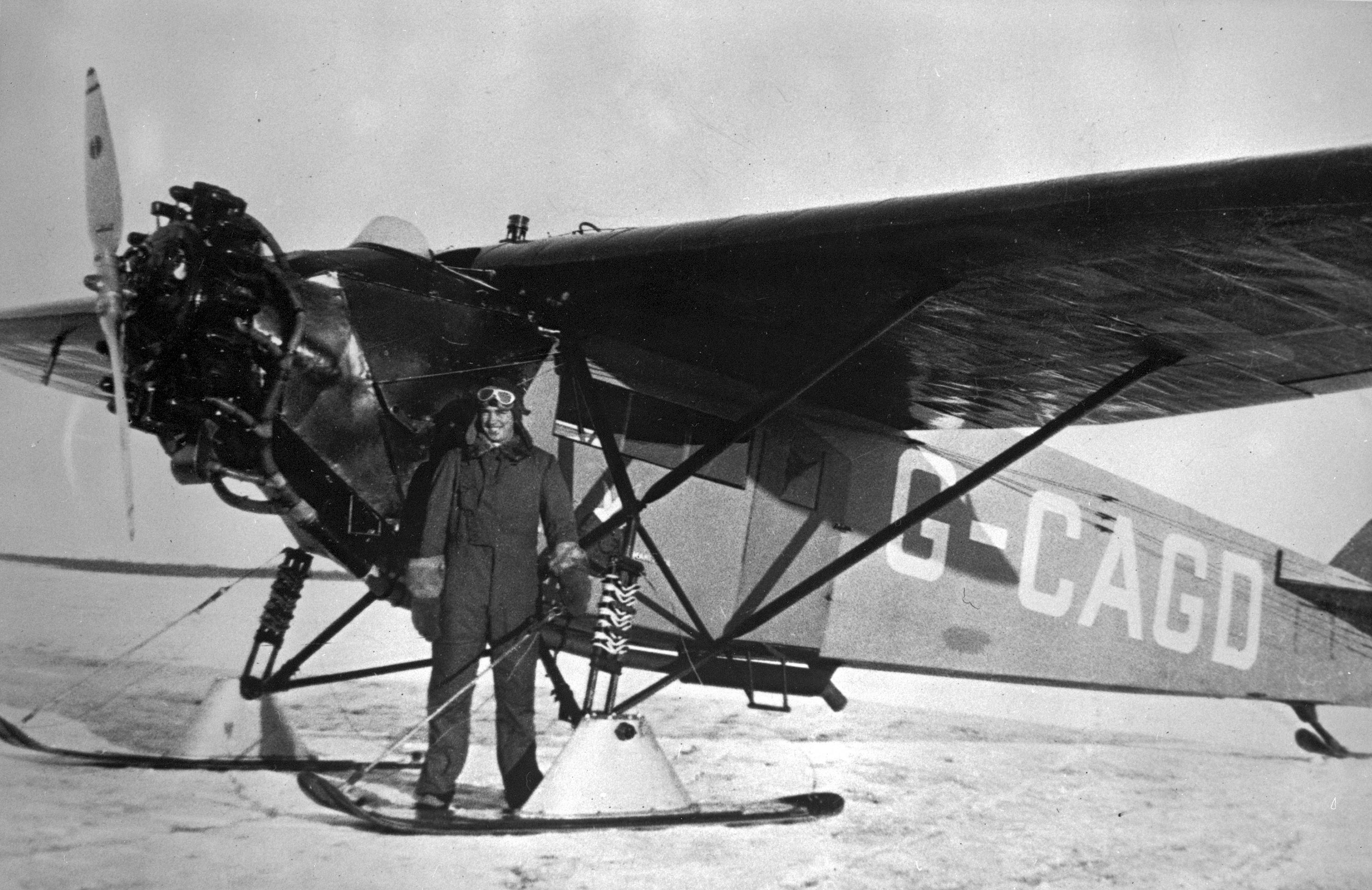 A13987